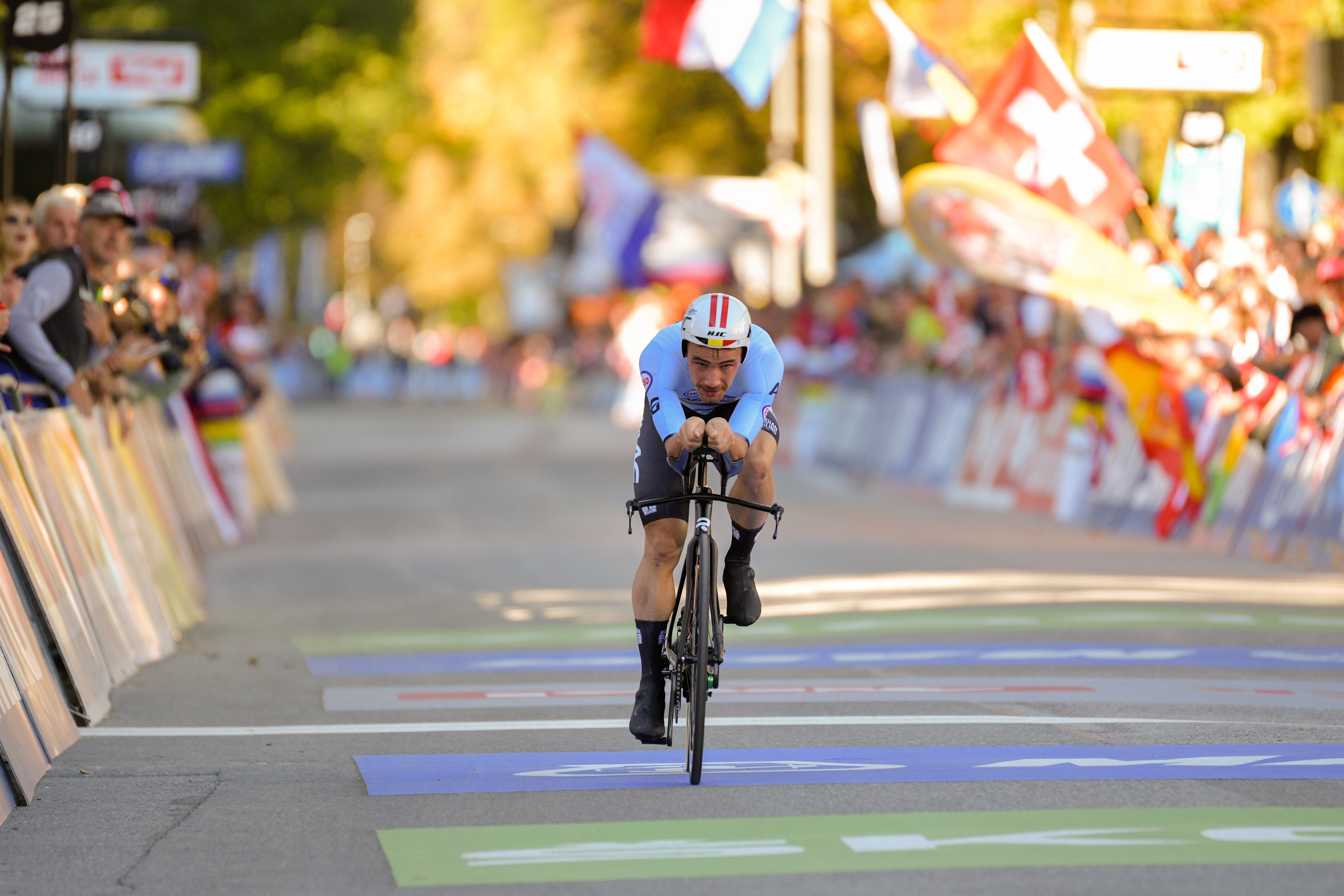 2018 UCI Road World Championships Innsbruck/Tirol Men's Individual Time Trial. Picture shows: Victor Campenaerts of Belgium